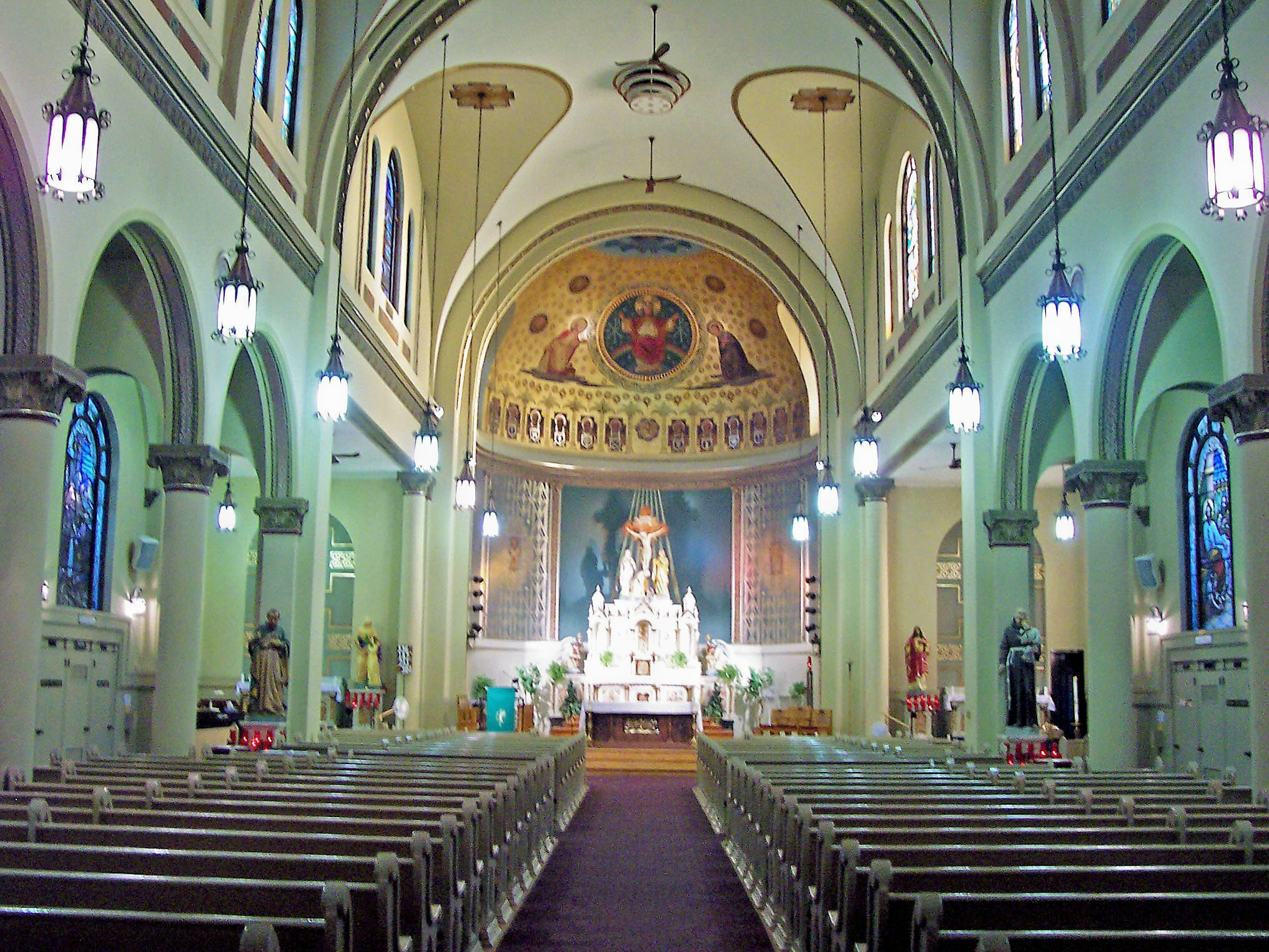 Nave of St. Casimir Church in South Bend Indiana.